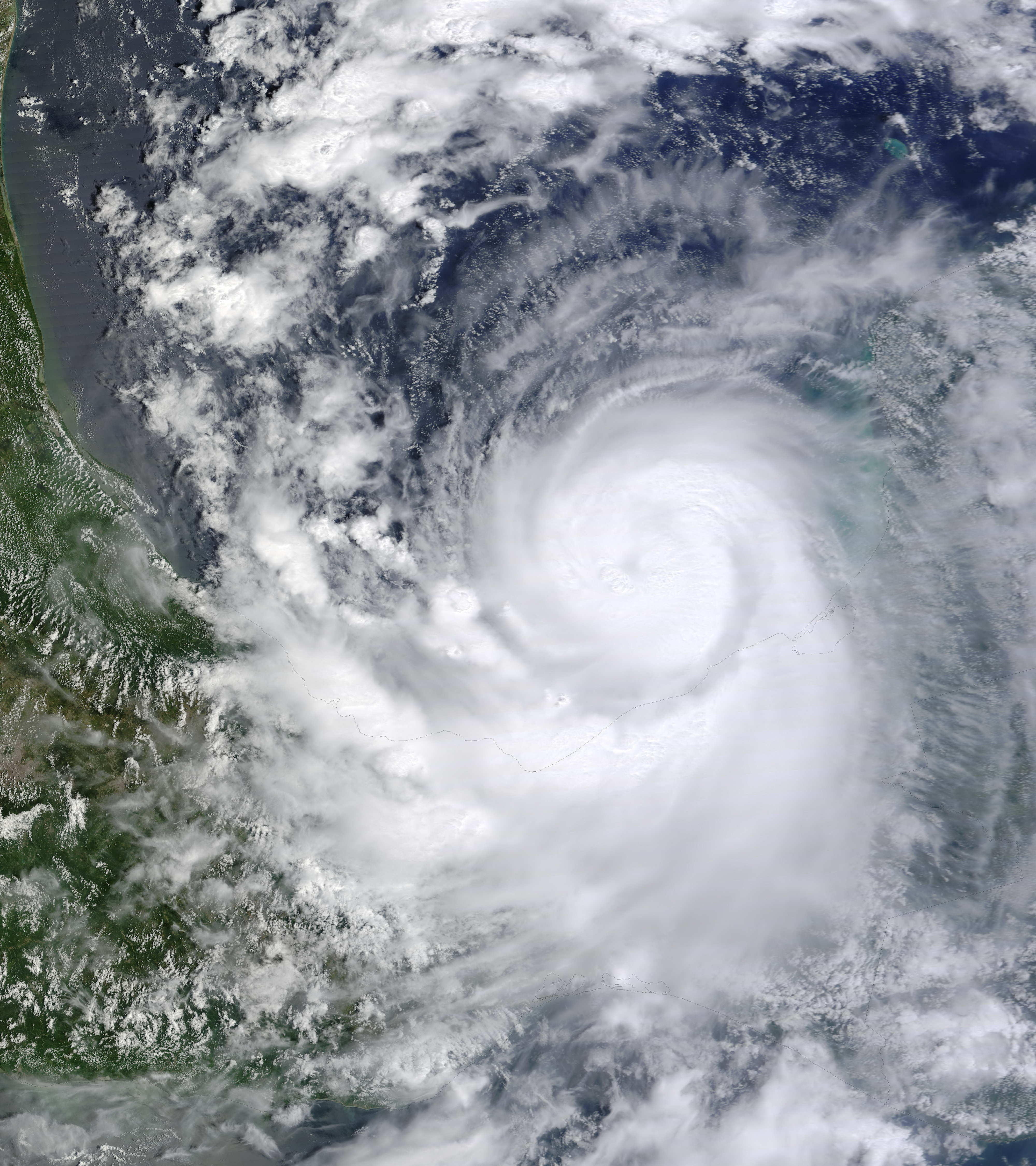 Hurricane Karl.